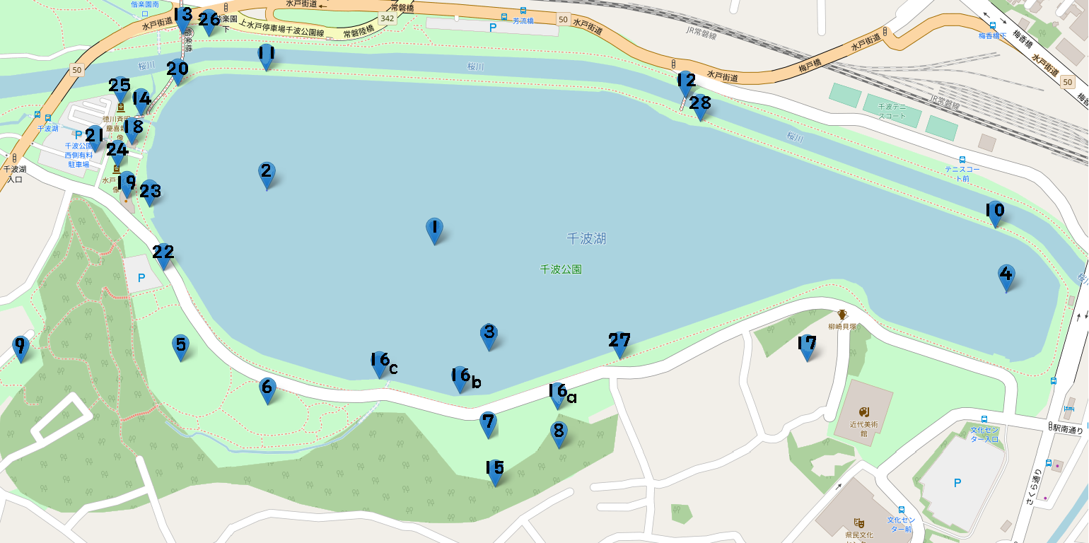 Map of Lake Senba in Mito , Ibaraki. Mark locations such as parks, buildings, statues, etc. This map may be incomplete, and may contain errors. Don't rely solely on it for navigation.